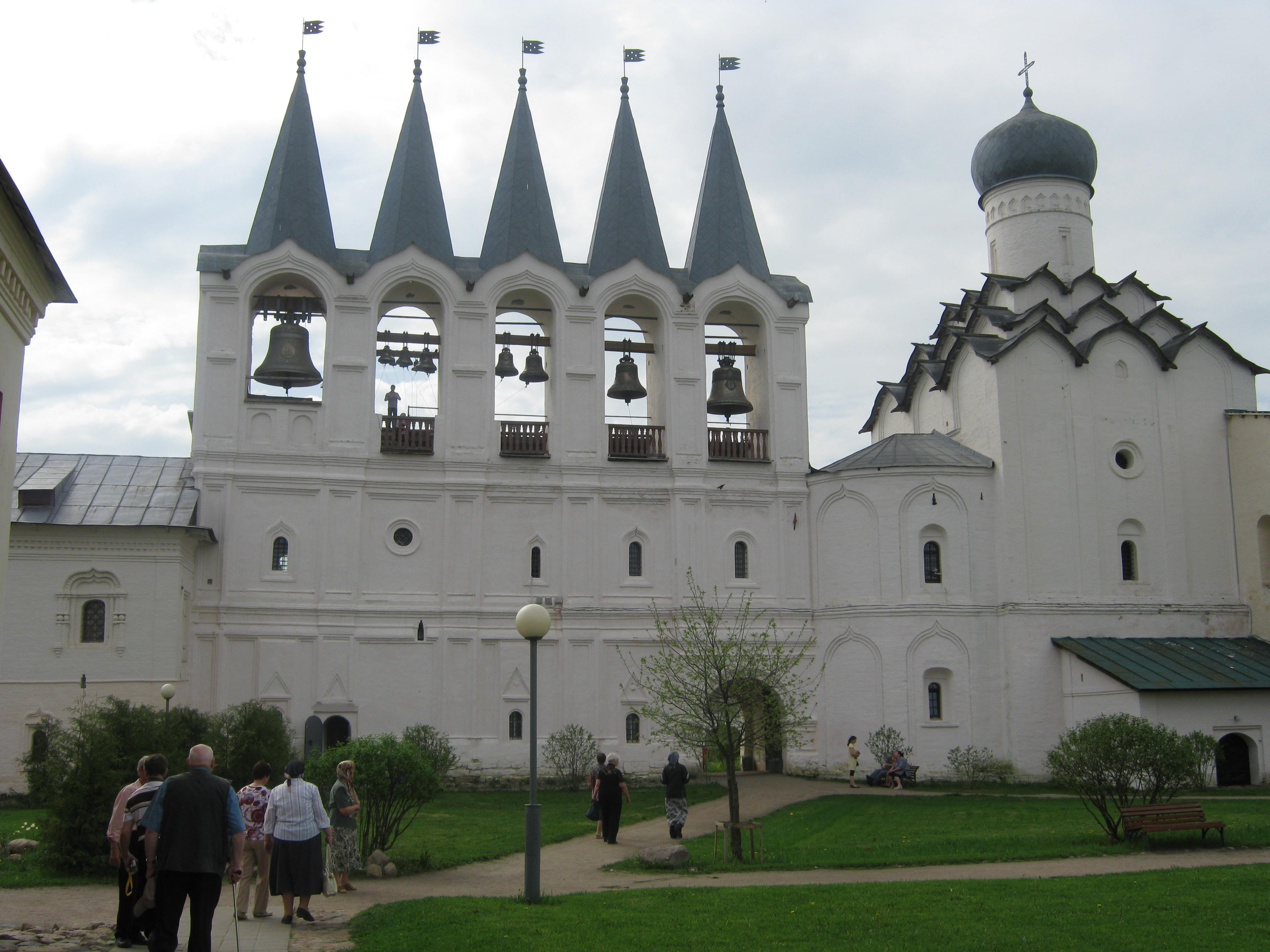 Leningrad Oblast (Russia), Tikhvin, Monastery of Dormition